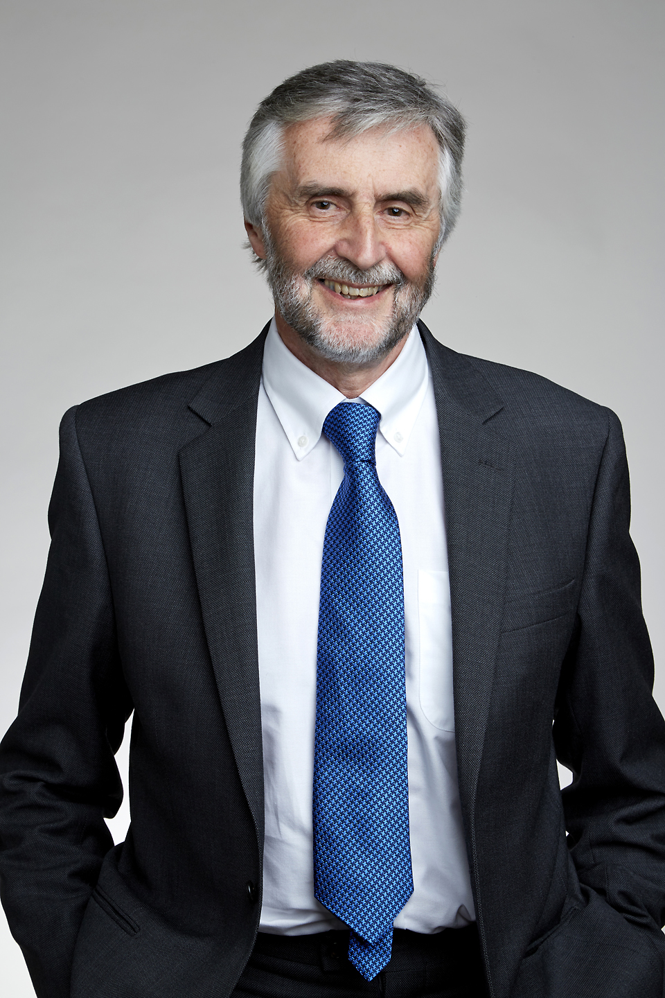 Patrick Gill, MBE, FRS is a Senior NPL Fellow in Time & Frequency at the National Physical Laboratory (NPL) in the UK. Attribution: The Royal Society